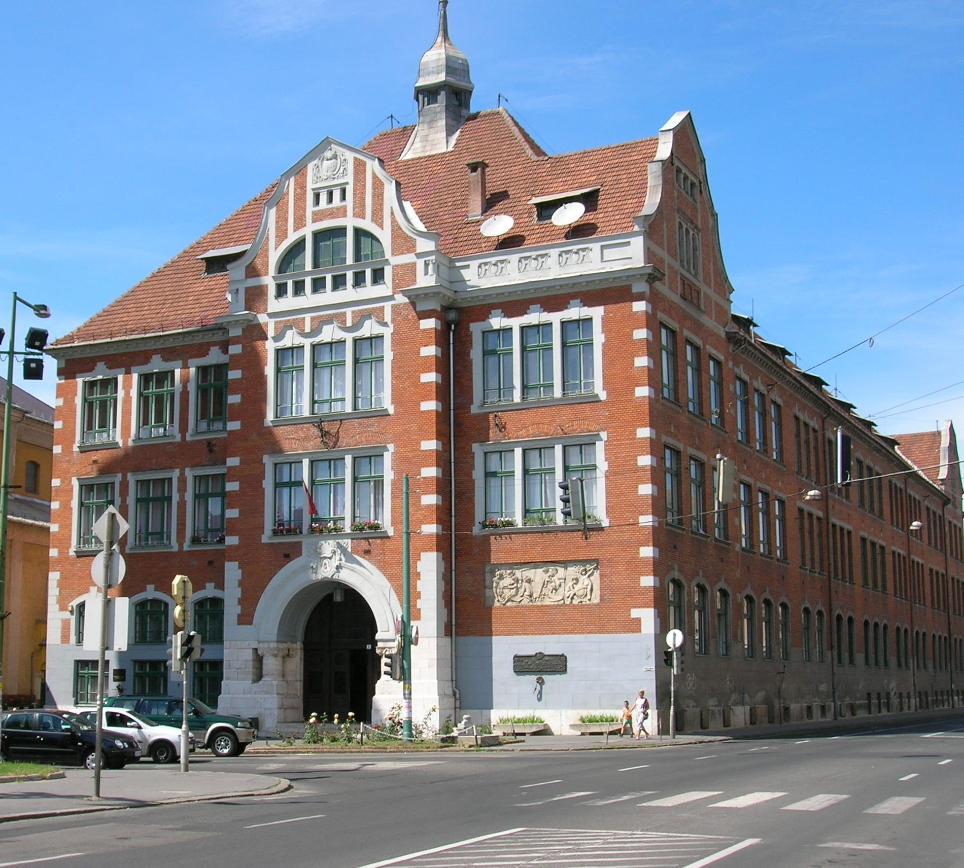 Corrected version of image:Miskolc_foldes.jpg